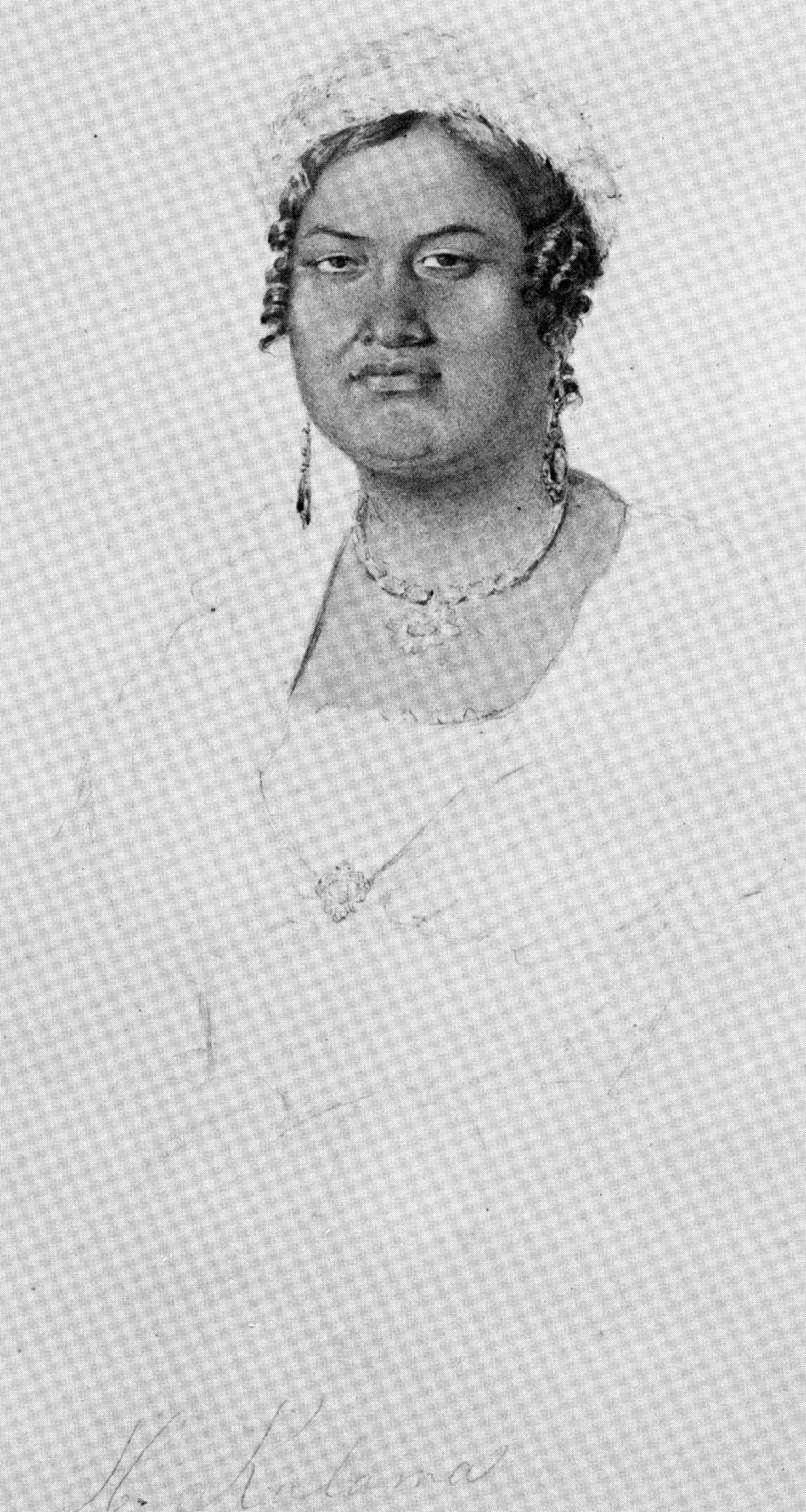 Portrait of Queen Kalama by August Plum, the artist aboard the Galathea.